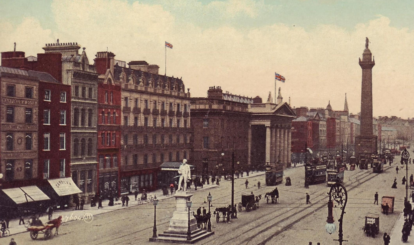 Dublin c. 1908. Painted photograph.